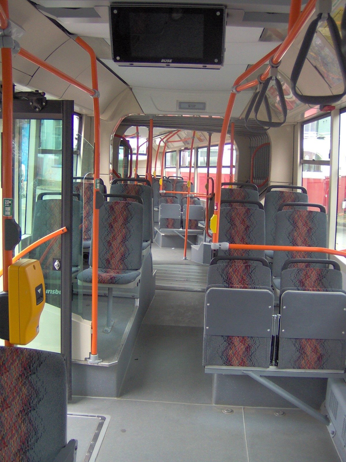 Interior of Škoda 25Tr Irisbus trolleybus, 140 years of public transport in Brno, Czech Republic.